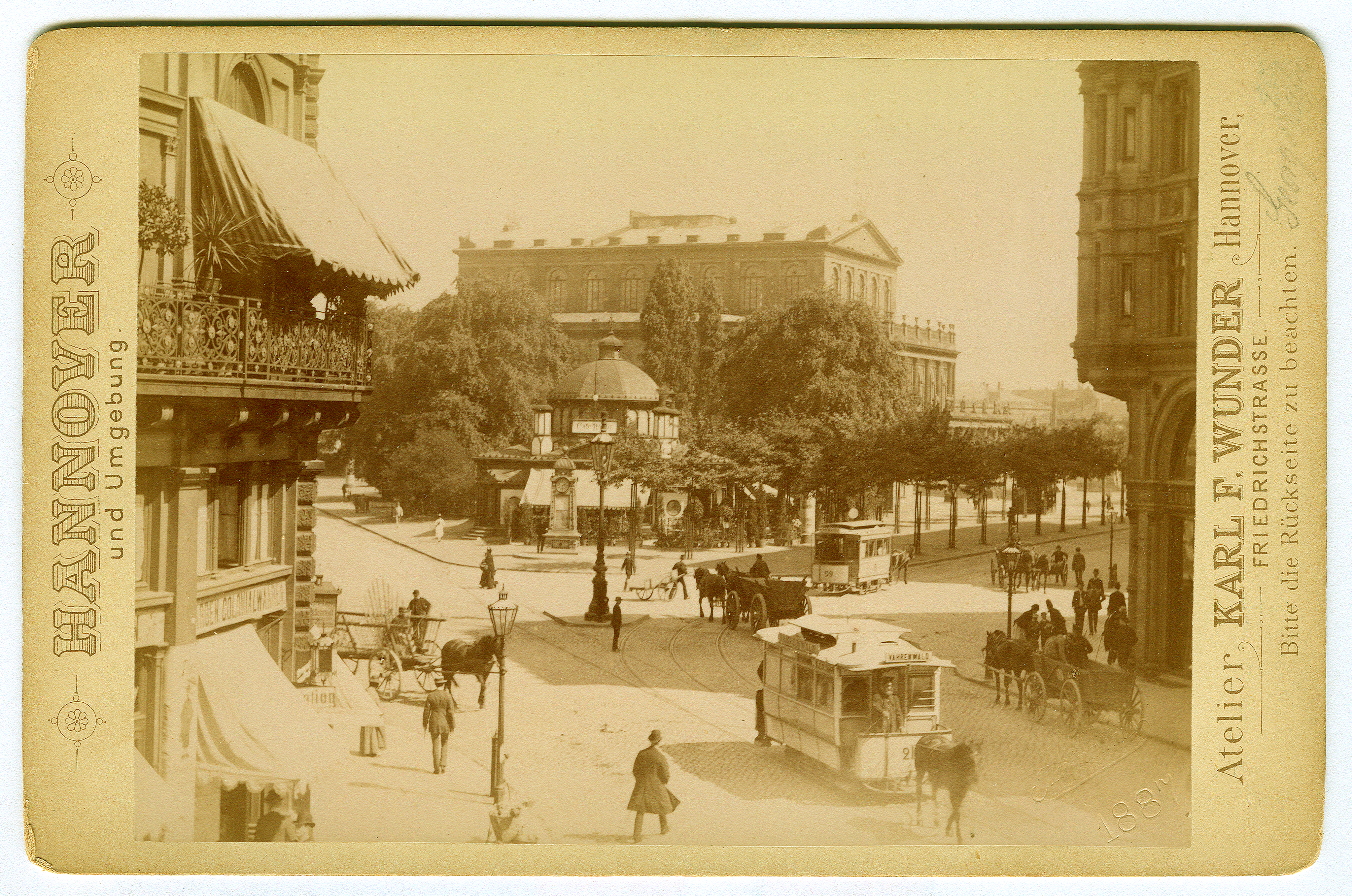 Back side of the photograph so called Carte de cabinet (french; german abreviation: KAB)